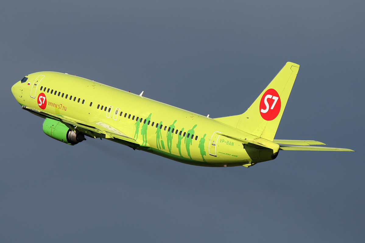 Initial climbout of an S7 Airlines Boeing 737-4Y0 from Domodedovo Airport (DME / UUDD)